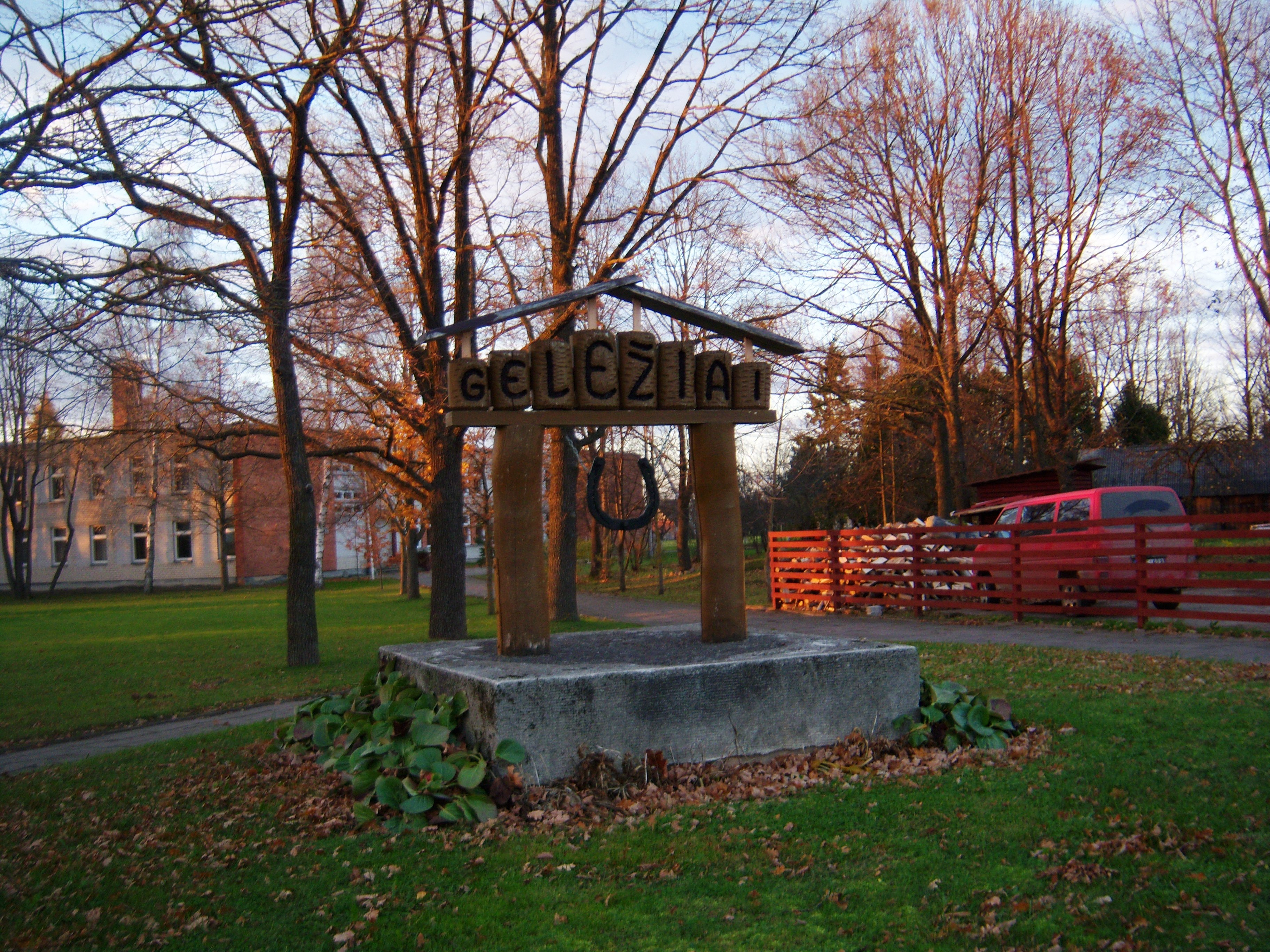 Geležiai, Panevėžys District, Lithuania